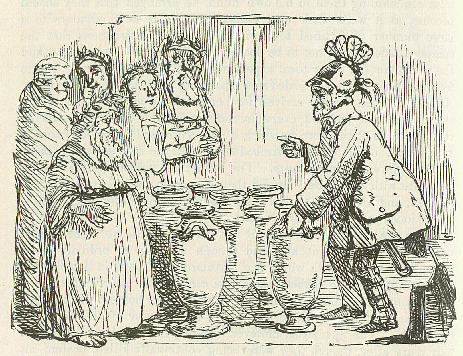 Image by John Leech, from: The Comic History of Rome by Gilbert Abbott A Beckett. Bradbury, Evans & Co, London, 1850s Hannibal requesting the Creatn Priests to become his Bankers